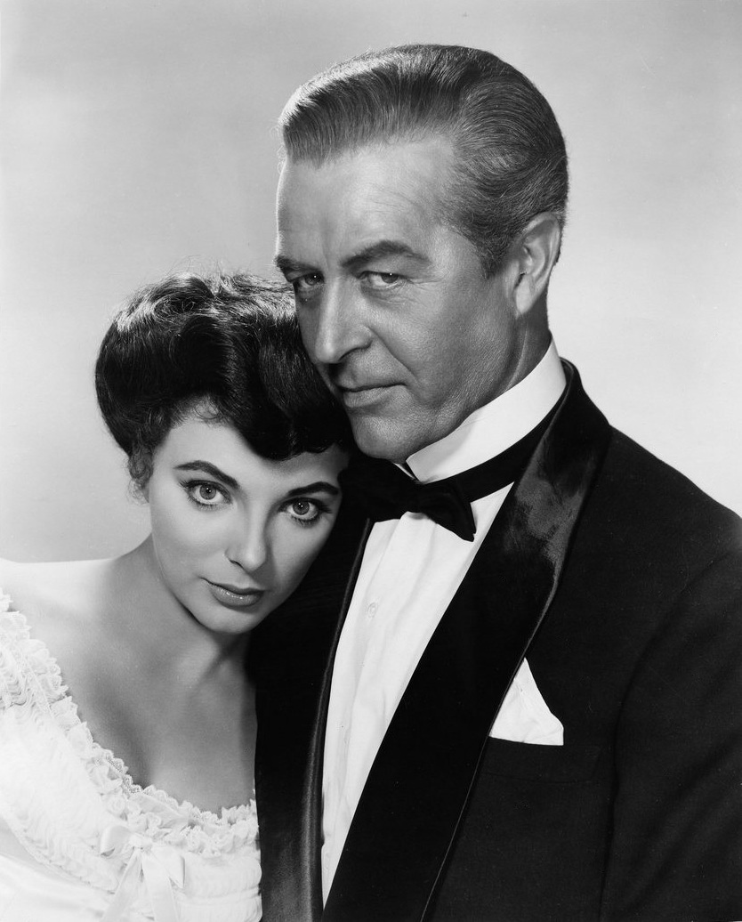 Photo of Joan Collins and Ray Milland from the film The Girl in the Red Velvet Swing.